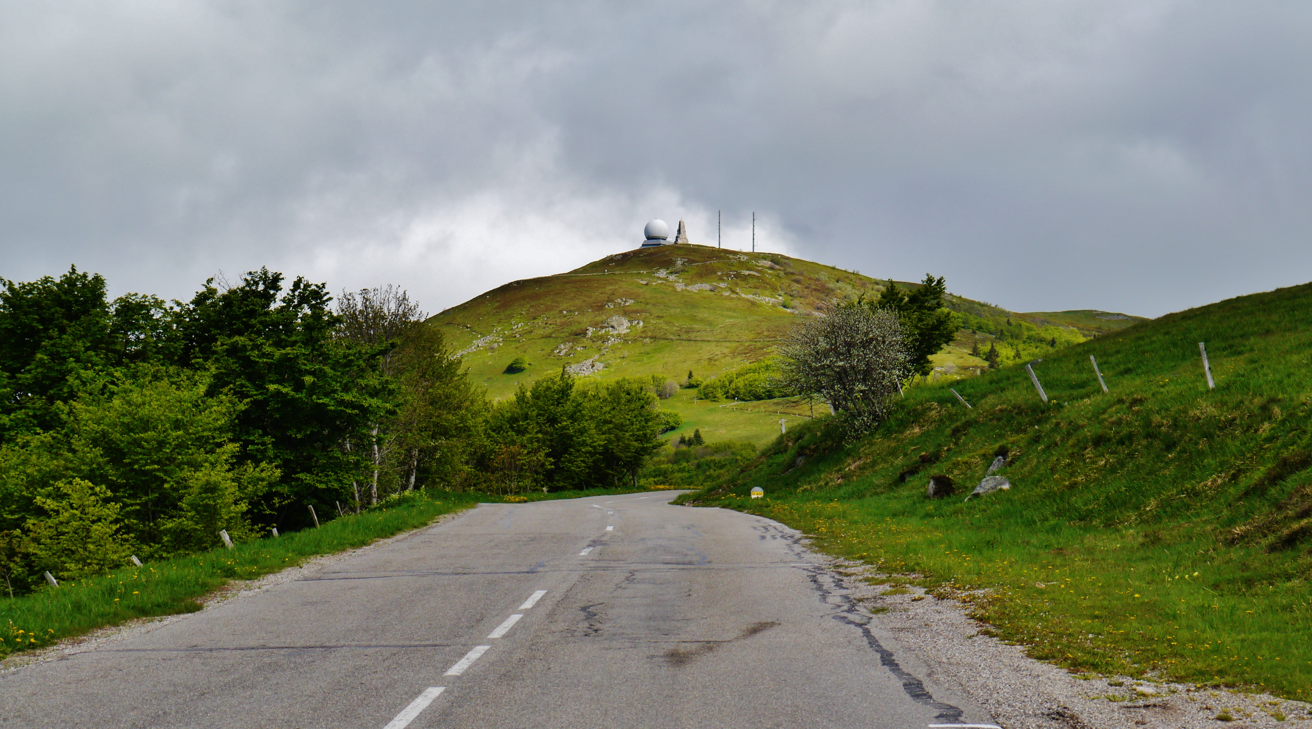 Grand Balloon at Route des Crêtes, Alsace, France